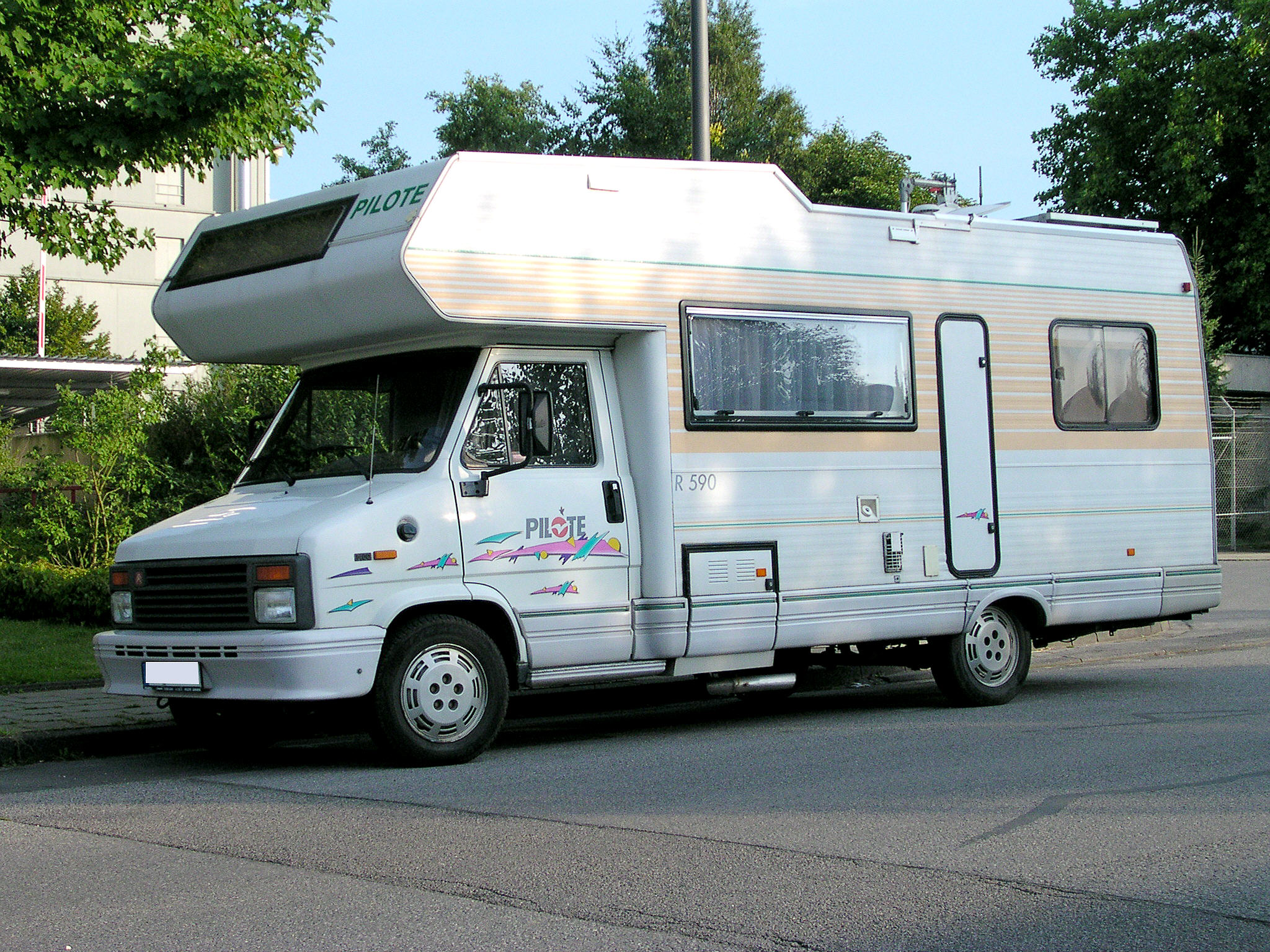 Pilote recreational vehicle «R590» using a Citroën C 25 D